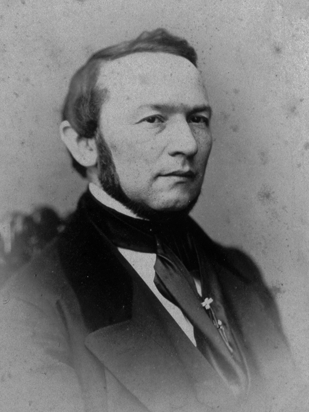 Wilhelm Wolfsohn